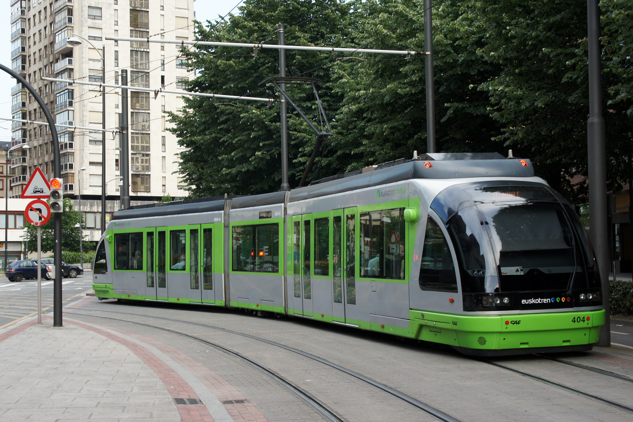 Bilbao EuskoTren approaching San Mamés station